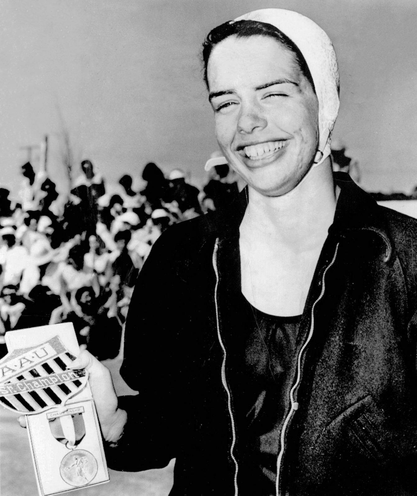 1952 Wire Photo modeling AAU Championship medal swimmer Marilee Stepan wins meet